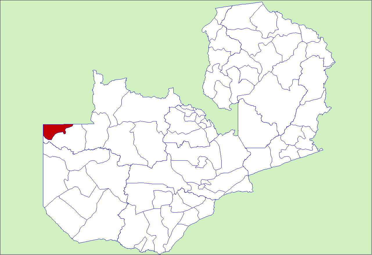 District locator in Zambia